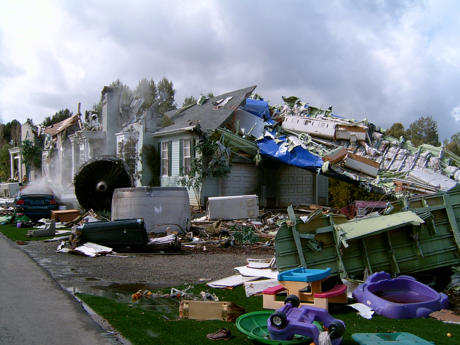 Movie set of the 2005 Steven Spielberg film, War of the Worlds (2005) on Universal Studios Themepark in Los Angeles.